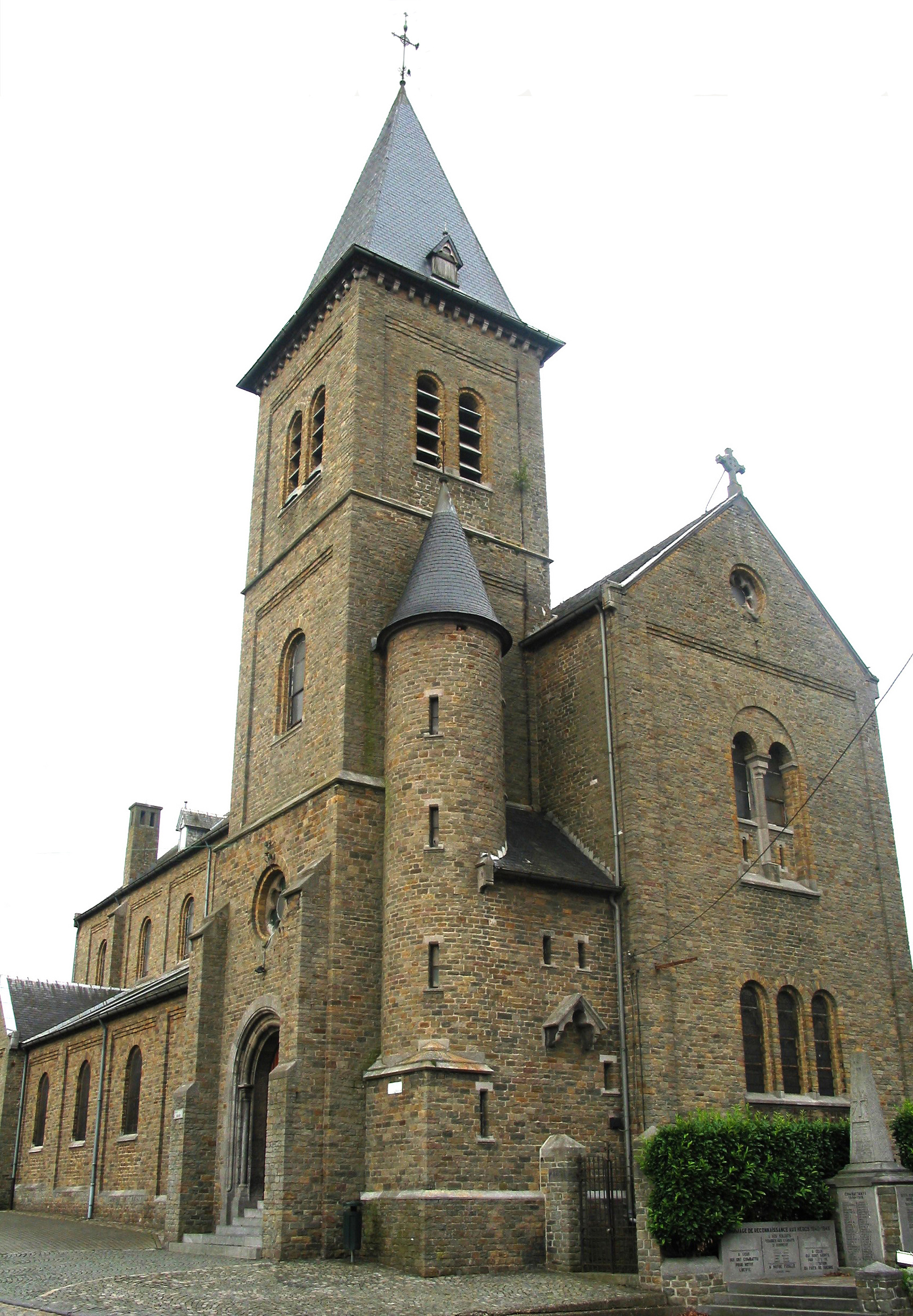 Lincent (Belgium), the Saint Peter's church.